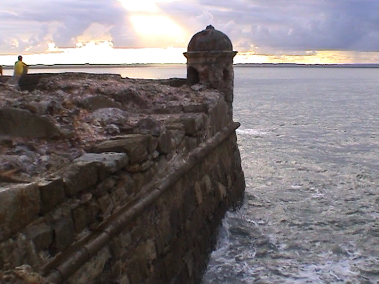 Morro de São Paulo Castle.